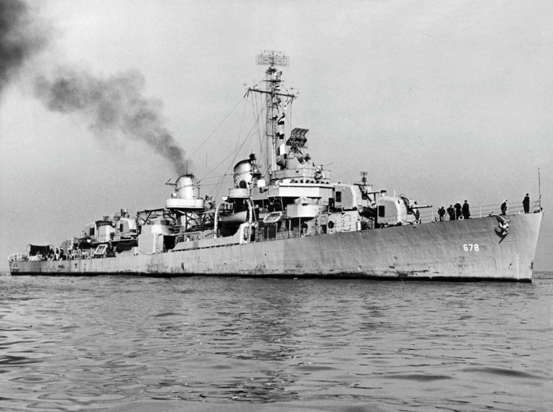 The U.S. Navy destroyer USS McGowan (DD-678) photographed during World War II.